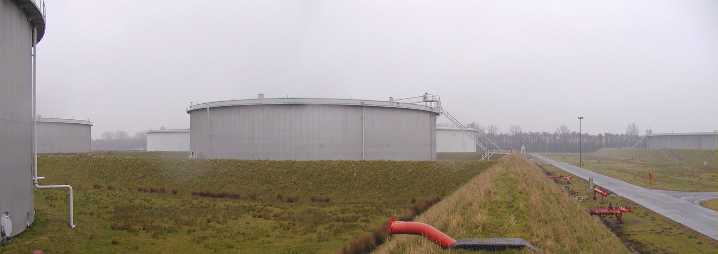 Every tank in an oil depot is surrounded by a dike that can hold the whole tank's contents